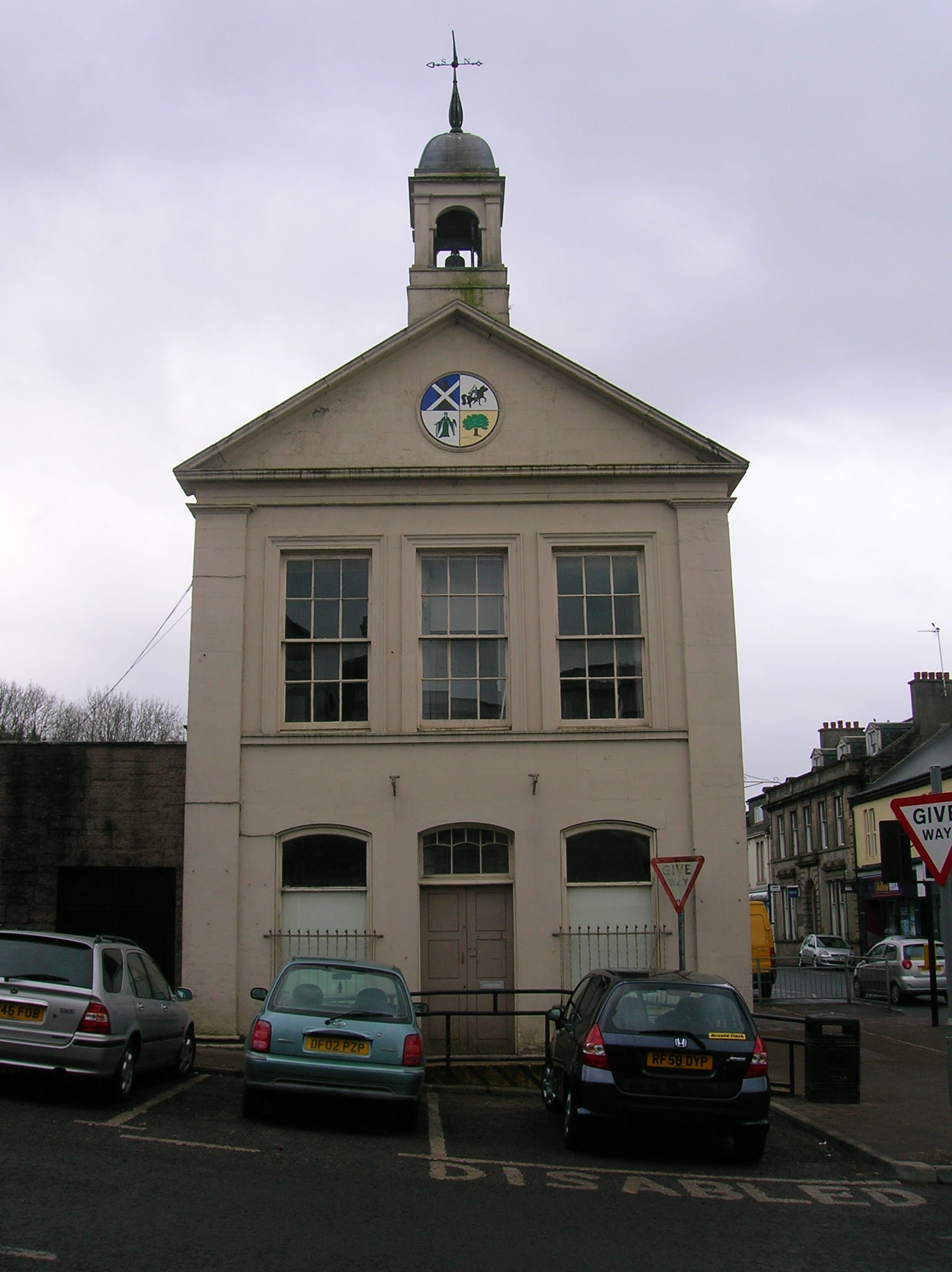 Beith Town house, North Ayrshire, Scotland